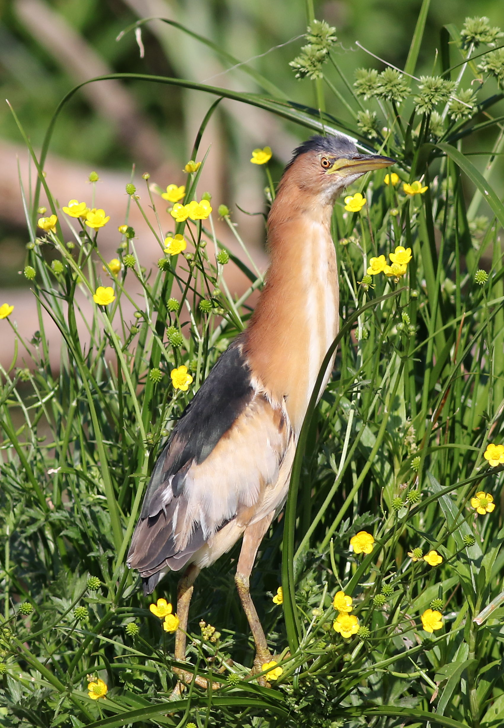 Little bittern, Ixobrychus minutus - - at Rietvlei Nature Reserve, Gauteng, South Africa